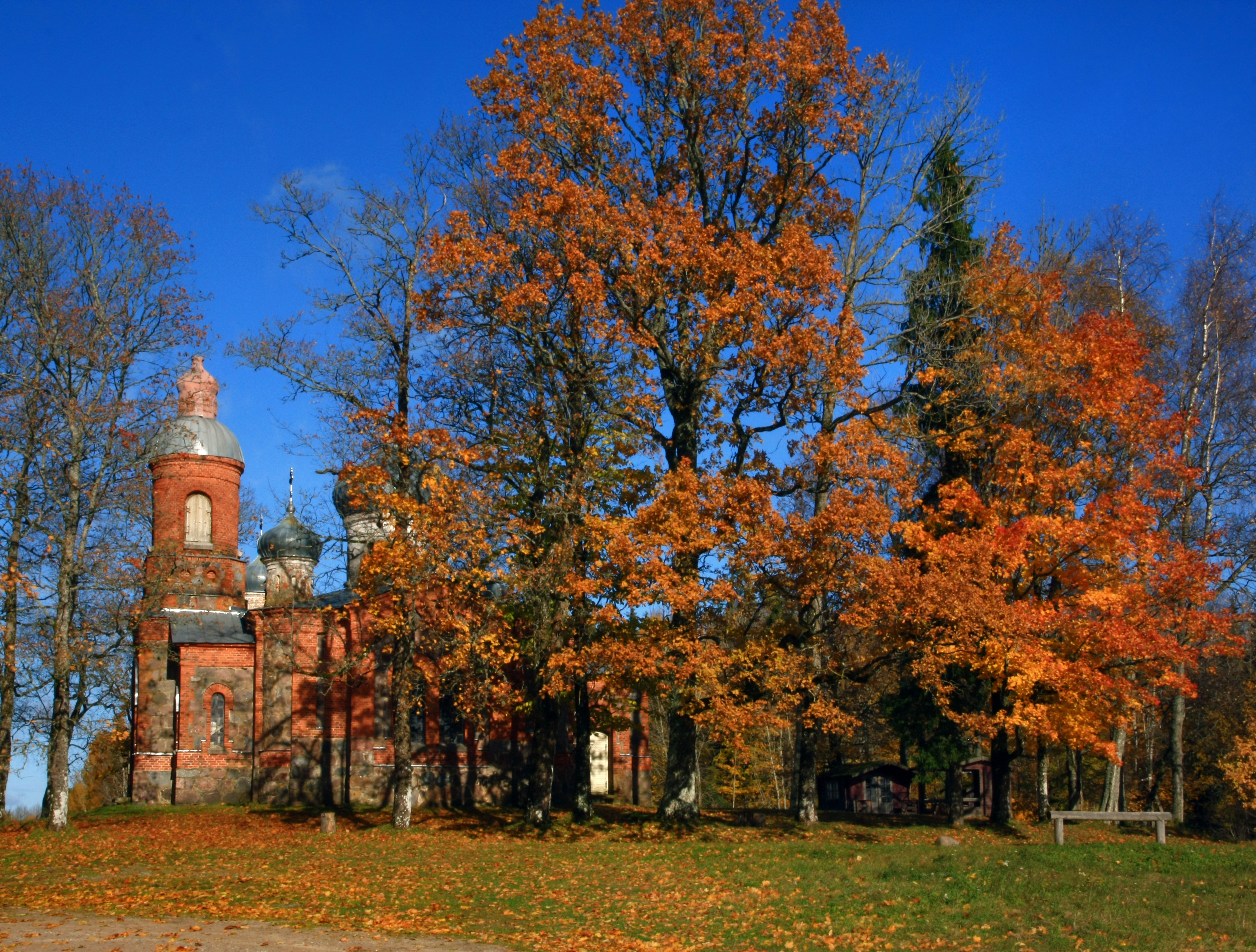 Plaani church in southeast Estonia.